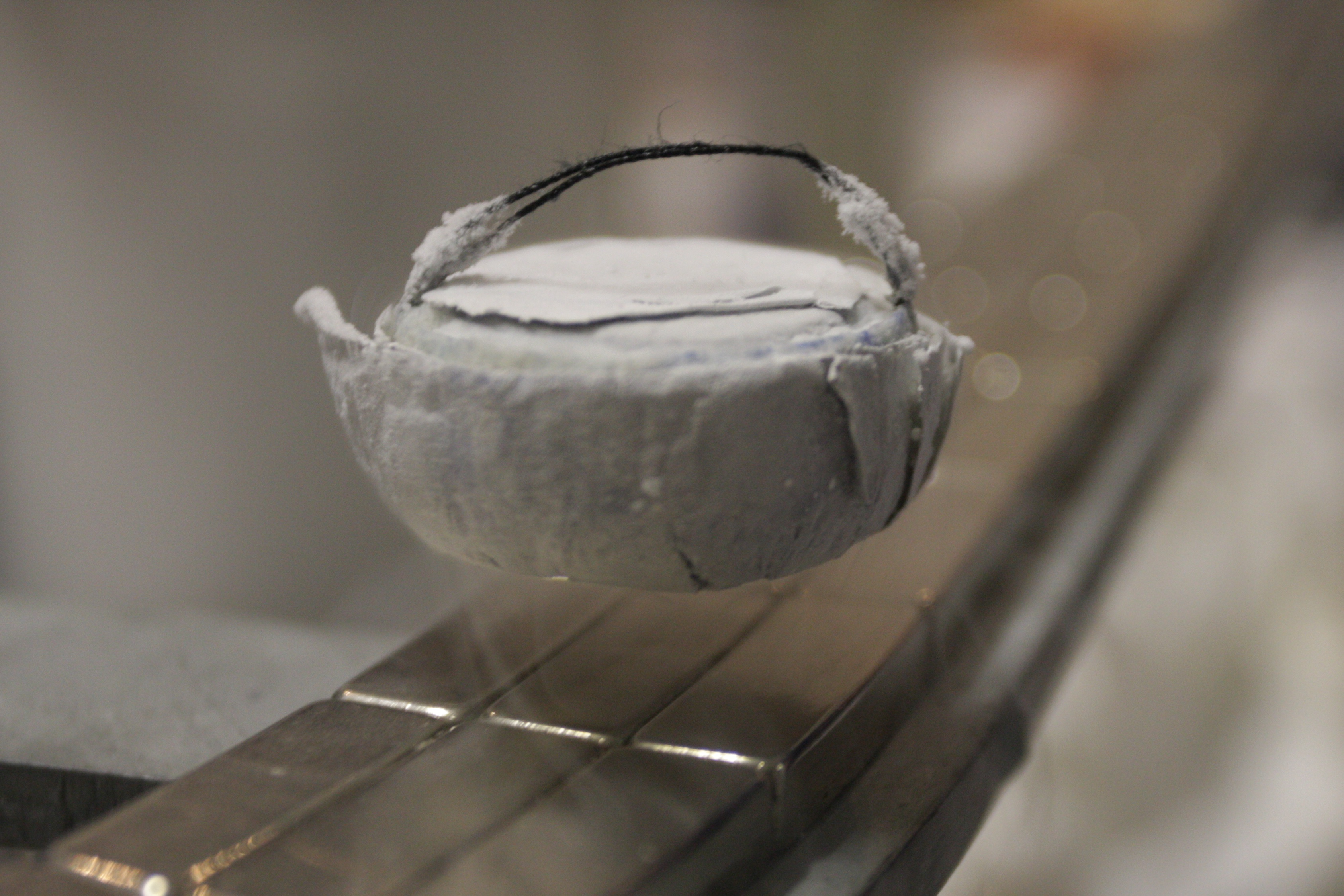 A high-temperature (liquid nitrogen cooled) superconductor levitating above a permanent magnet (TU Dresden)